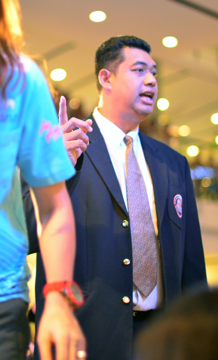 Kiattipong Radchatagriengkai